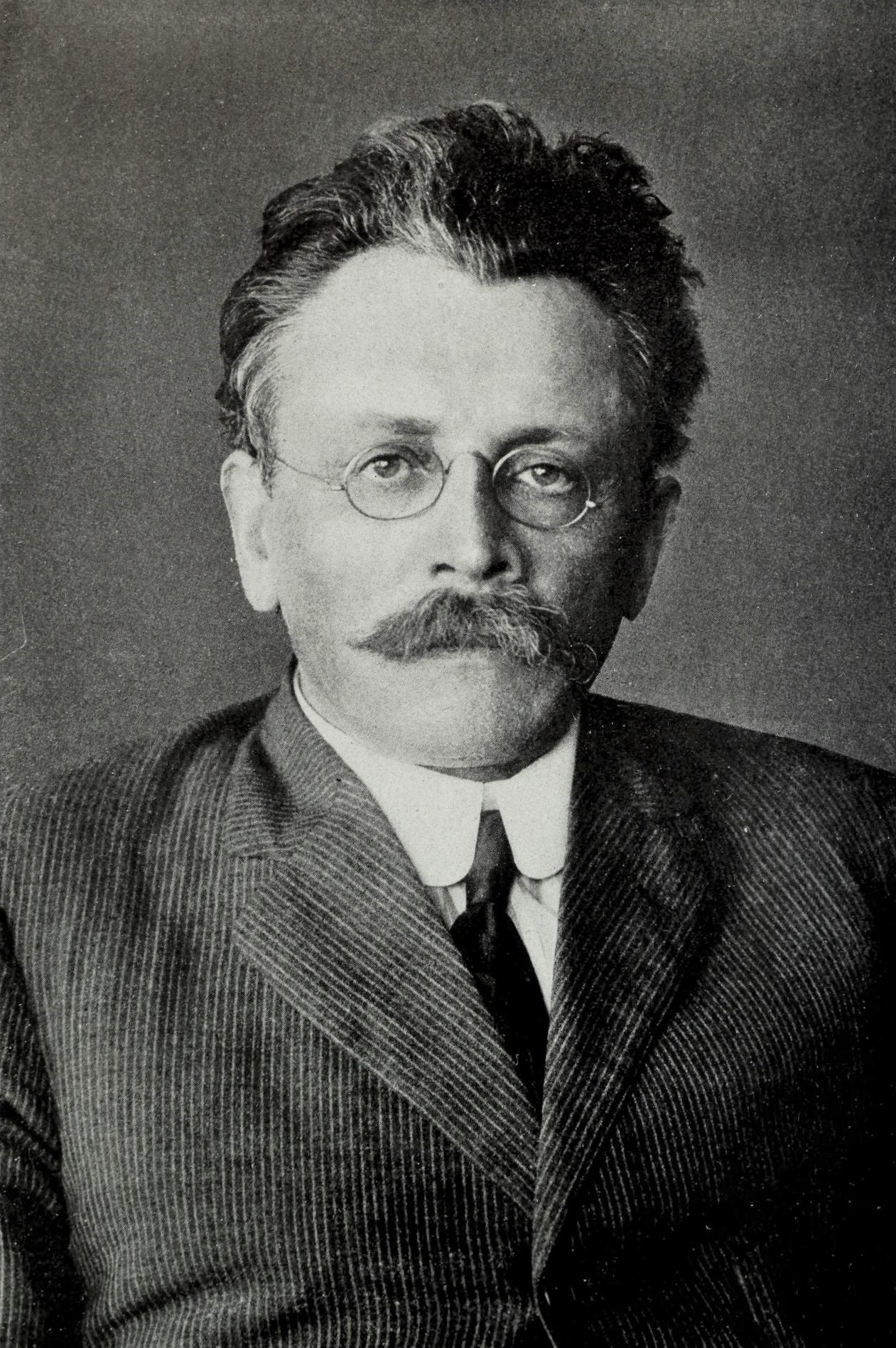 Portrait of Abraham Cahan.